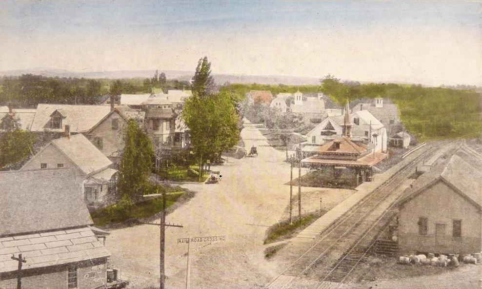 Bird's-eye view of Center Ossipee, New Hampshire; from a c. 1915 postcard published by Frank W. Swallow, Exeter, New Hampshire. This photograph was taken from Chamberlain's grain elevator, built about 1912.